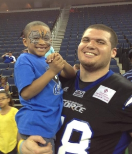 Kris Cooke, DL, Georgia Force and his #1 fan after the GA Force, Rush game